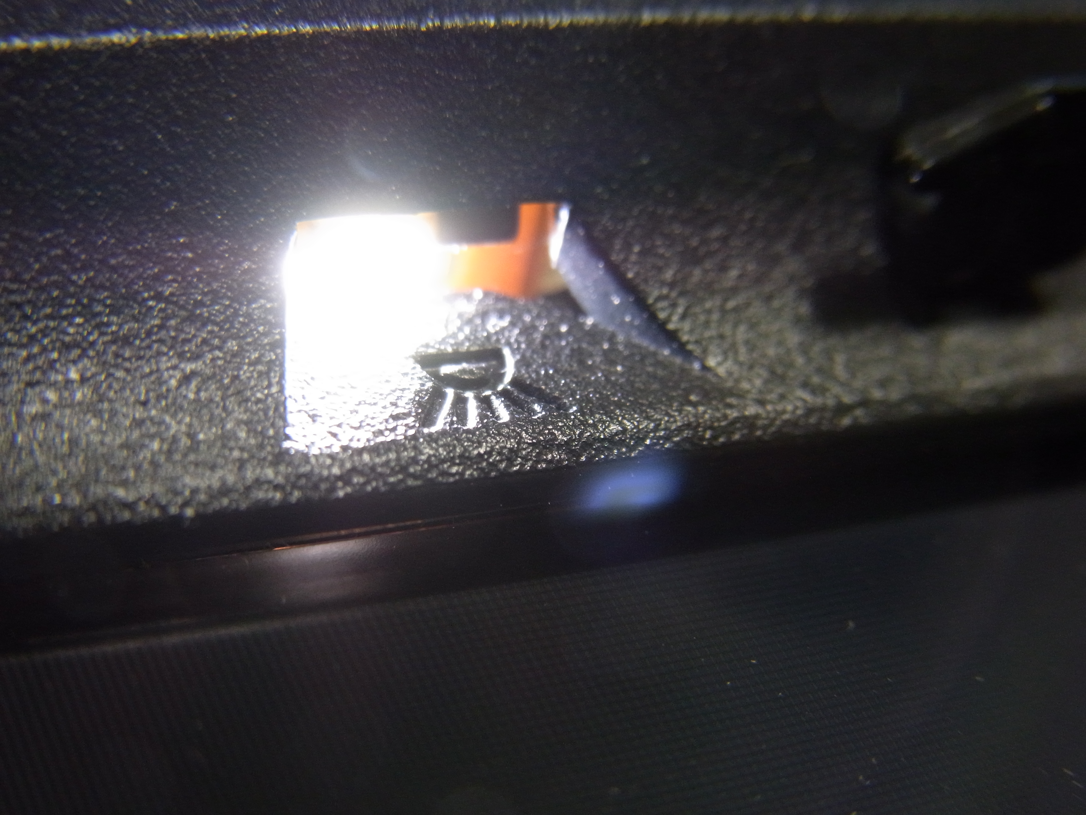 ThinkPad X60 ThinkLight